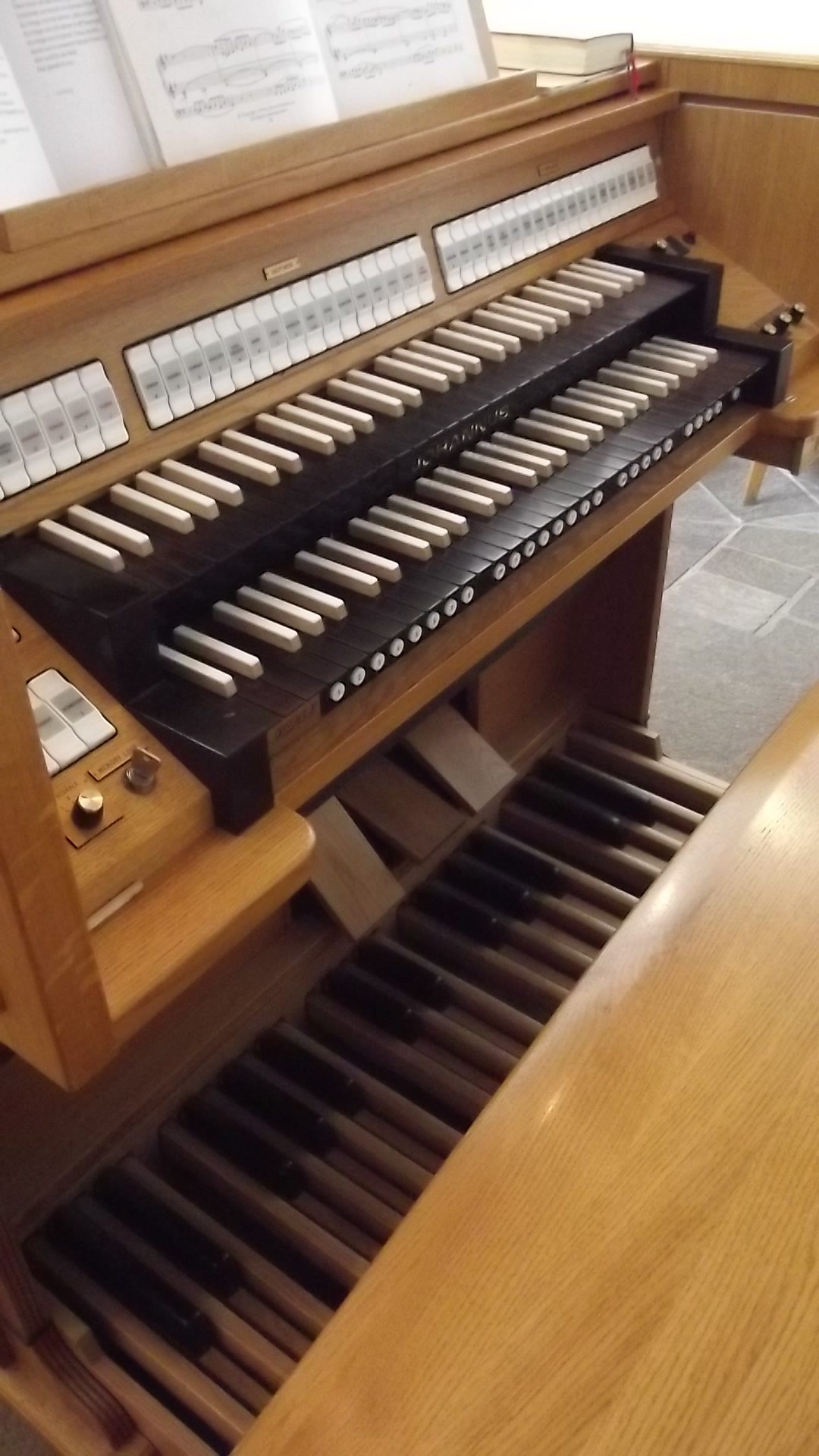 Interior of the roman catholic church in Steinrausch, Saarland, Germany